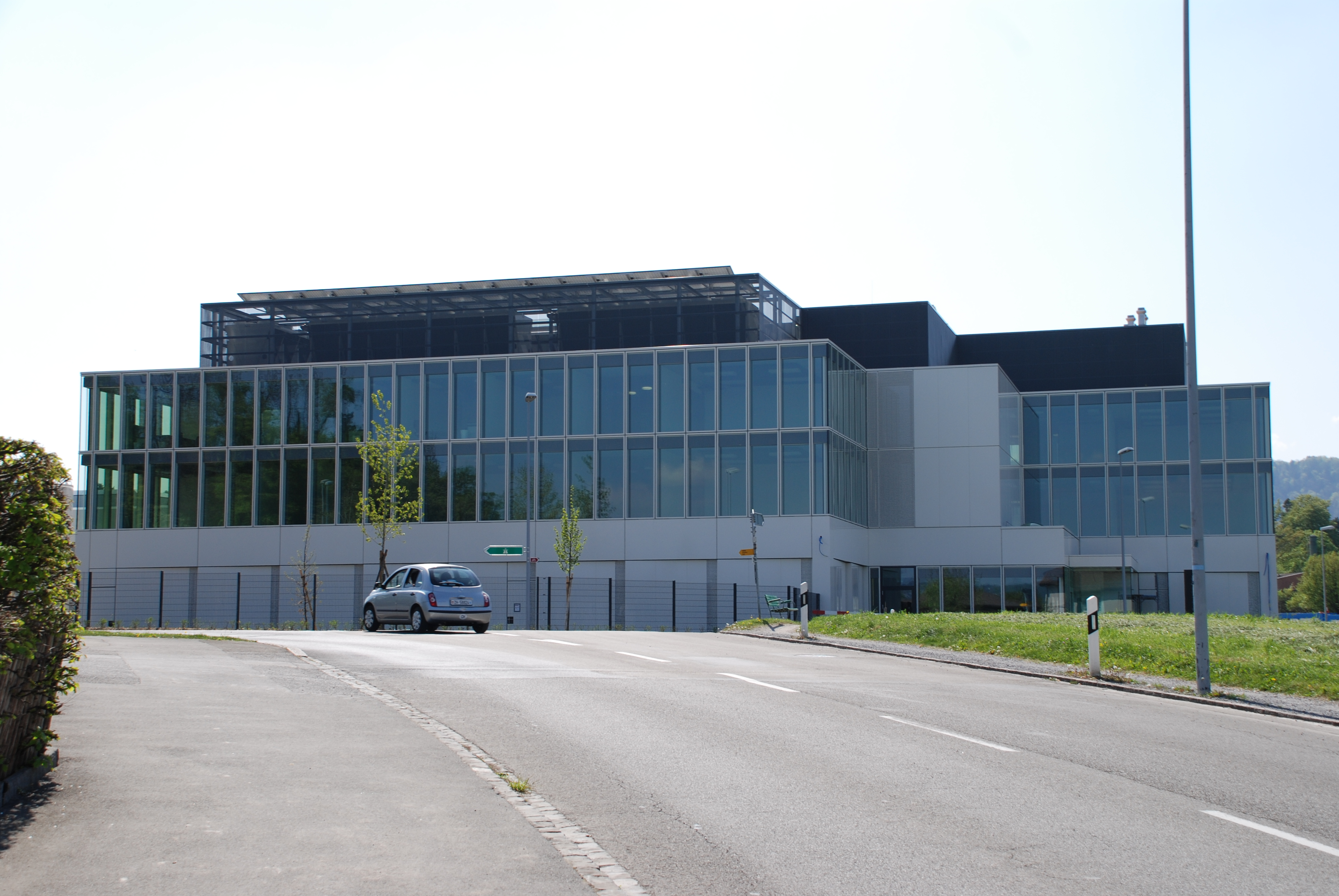 The "Binnig and Rohrer Nanotechnology Center" of IBM from its East Side